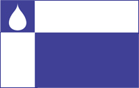 Flag of Väike-Maarja Parish, Estonia